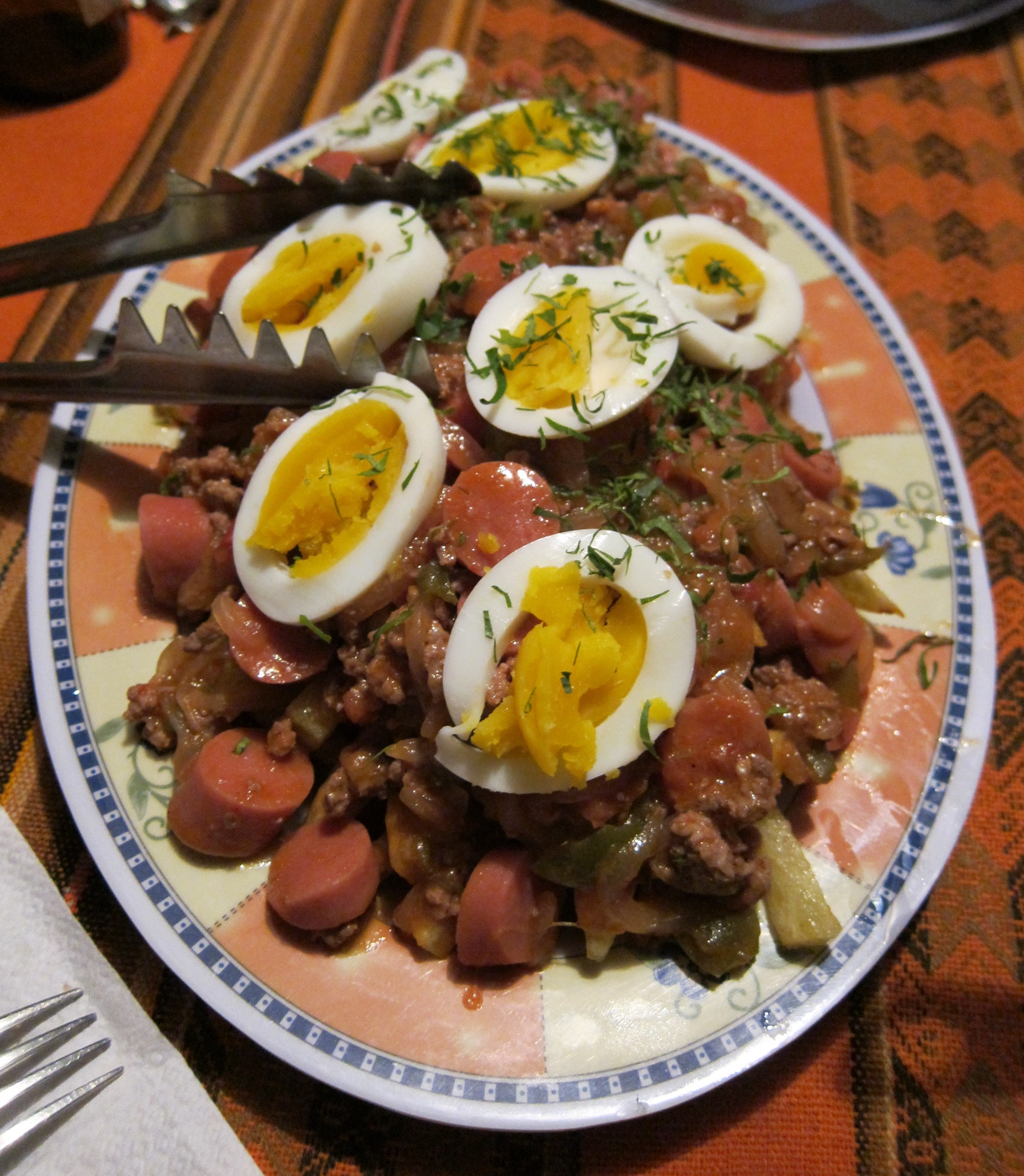 Pique macho (pronounced pee-kay maacho) is a typical Bolivian food. It is a heaped plate consisting of bite-sized pieces of beef, sausage (hot dog type), and french fry-cut potatoes. Added to this mixture are onions, locoto, boiled egg, mustard, mayonnaise, and ketchup.